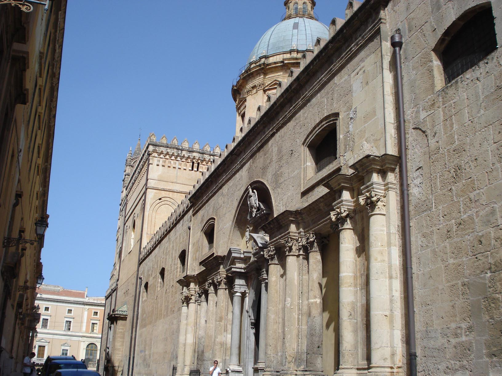 Northern facade (Palermo Cathedral)